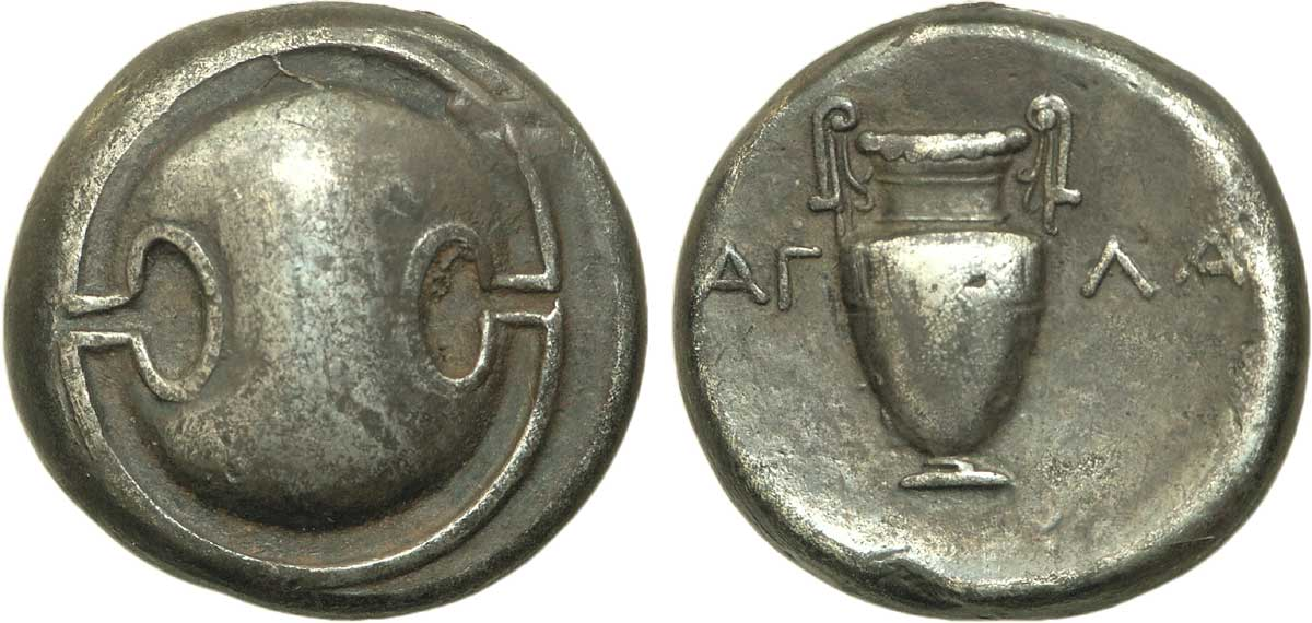 Statère thébain au bouclier et au cratère Date : c. 360 AC. Nom de l'atelier/ville : Thèbes Le bouclier béotien se rencontre aussi dans d'autres villes de Béotie, en revanche le vase du revers n'apparaît surtout qu'à Orchomène, détruite par Thèbes en 364 avant J.-C. Le cratère est un grand vase largement ouvert qui servait pour les repas et les sacrifices et où le vin et l'eau étaient mélangés. Avec une grande cuillère (cyalthus), on remplissait les coupes. Ce type de vase avec deux grandes anses porte aussi le nom de diota (qui a deux oreilles), à cause de la forme des anses.